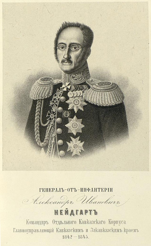 Aleksander Neidgardt